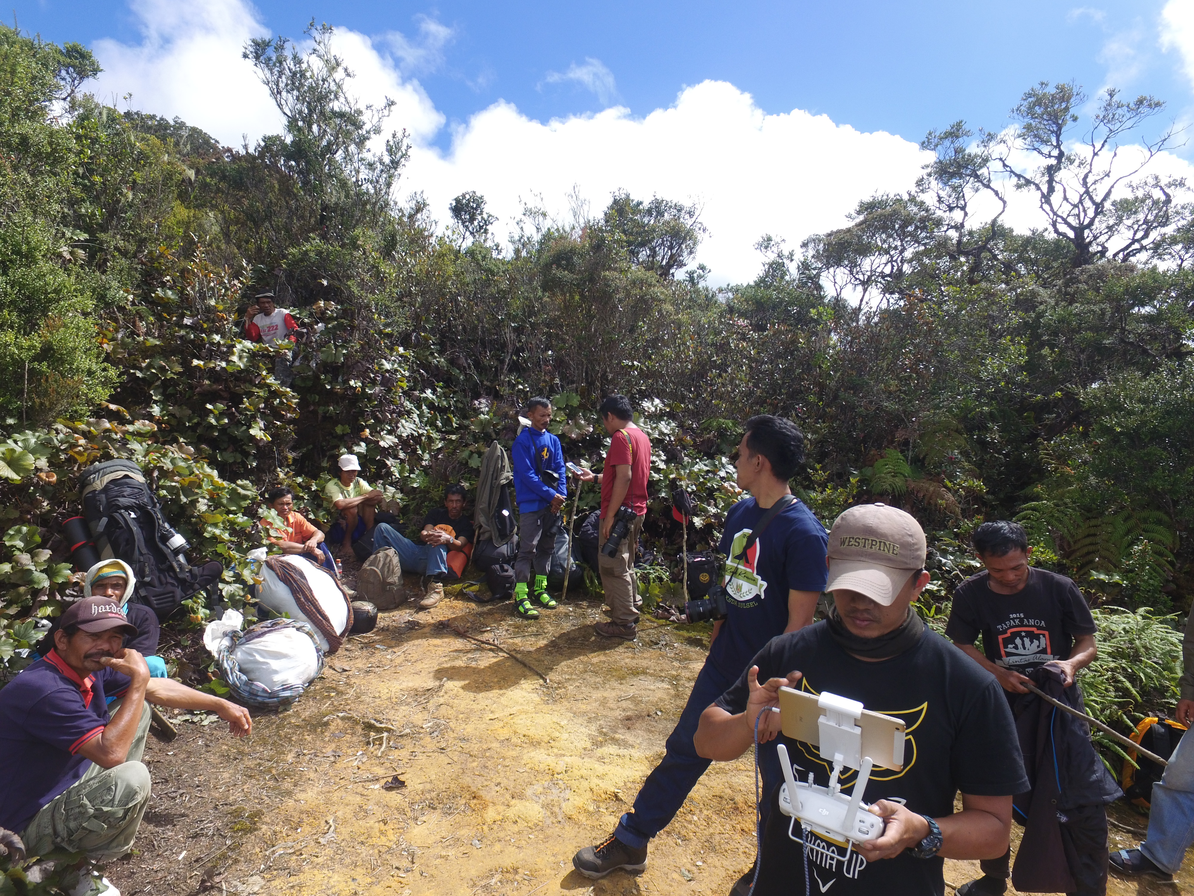 ekspedisi TNGD Balai Besar KSDA Sulawesi Selatan